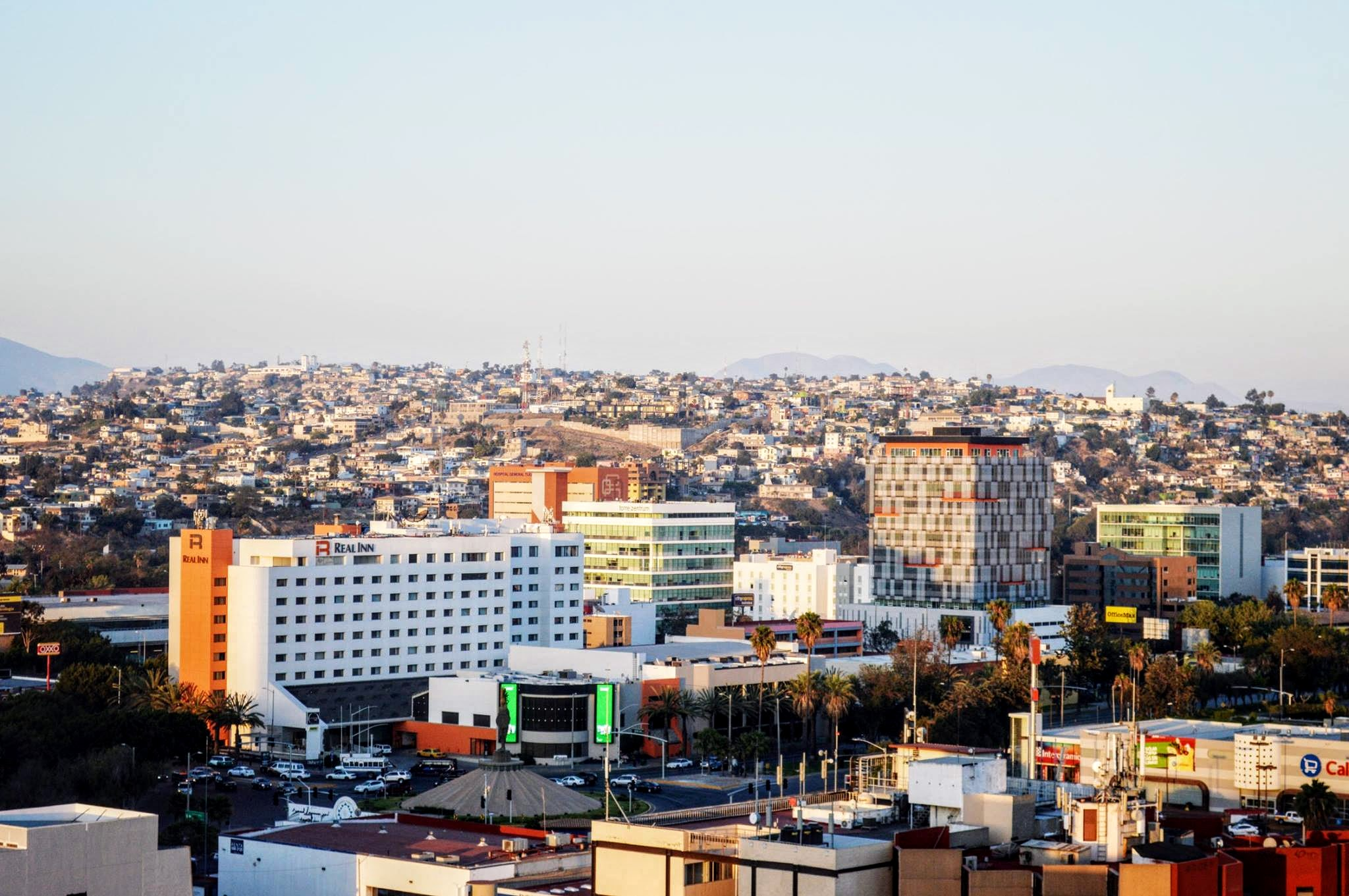 Financial and hotel district in Tijuana